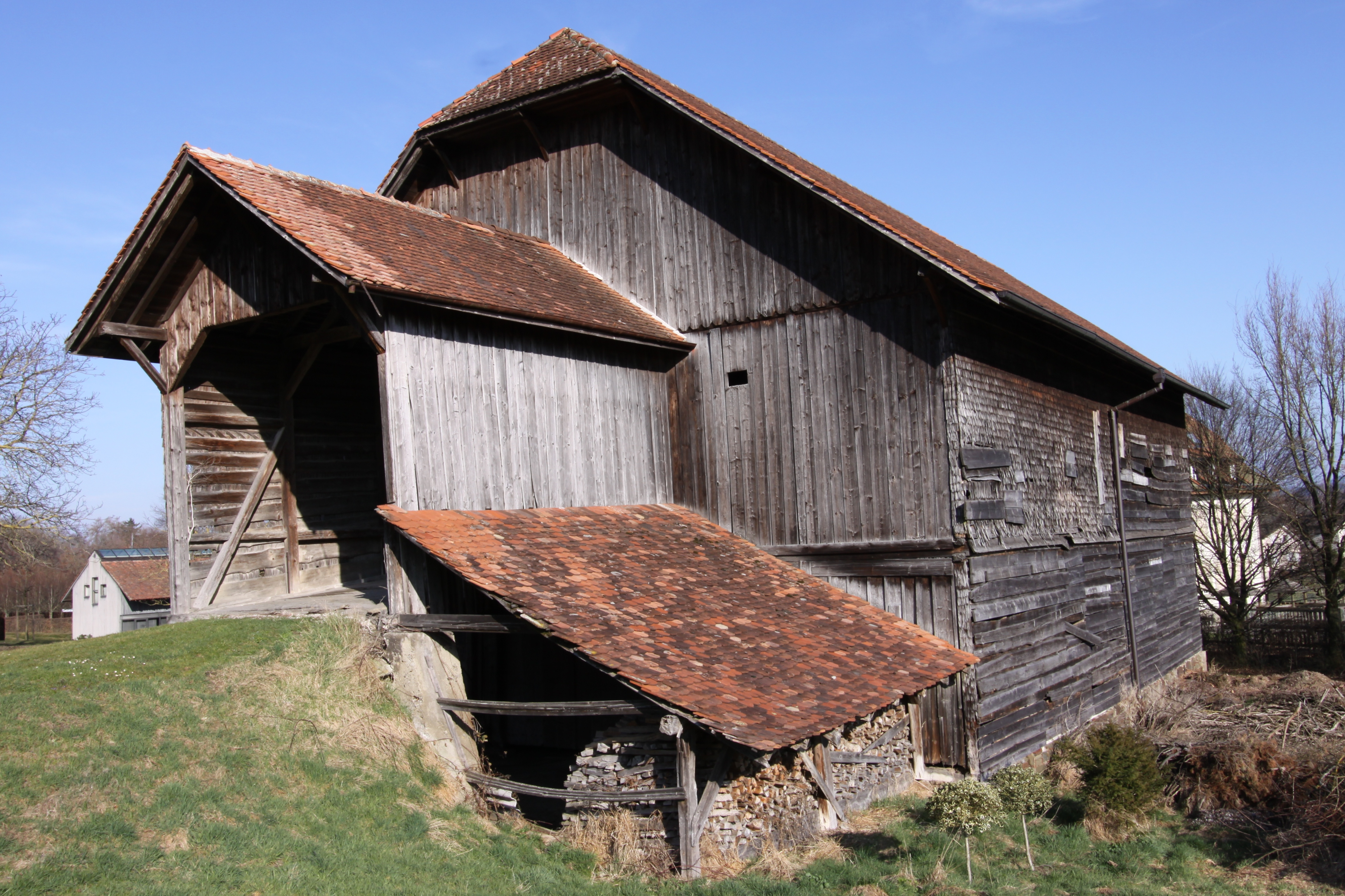 A covered bridge barn and stable, Chemin de la Fruiterie 5a, Barberêche